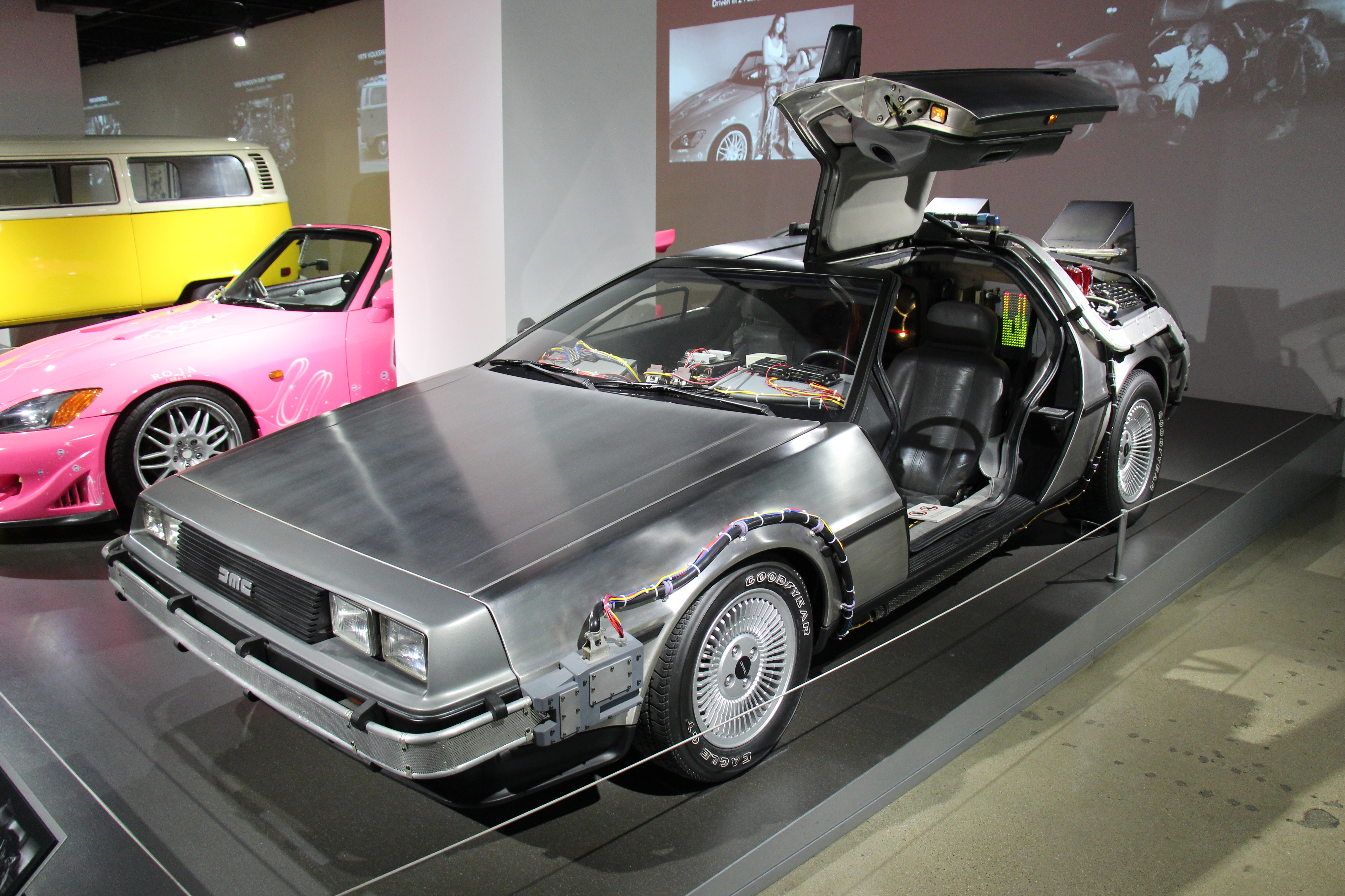 Built in 1981 and 1982, 9000 were made, built in Northern Ireland for the American market and it featured gull wing doors, fibreglass underbody and brushed stainless steel body panels. This car was made famous in the Movie Trilogy 'Back to the Future'. staring Micheal J Fox and Christopher Lloyd, the modified car was used as a time machine travelling to different periods of time (1985 to 1955 to 2015 to 1855) in Hill Valley, California, their adventures and difficultys in getting back to their original year. This particular car was the first of three built for the first movie, it appeared in all three movies and then was a tourist attraction for 25 years at Universal Studios in Hollywood Photographed at the Peterson Museum Engine; 2849cc V6